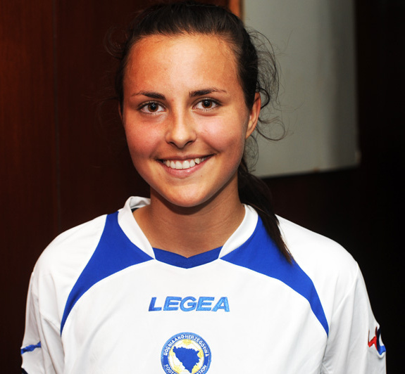 Footballer Iris Kadrić resplendent in Bosnia and Herzegovina livery